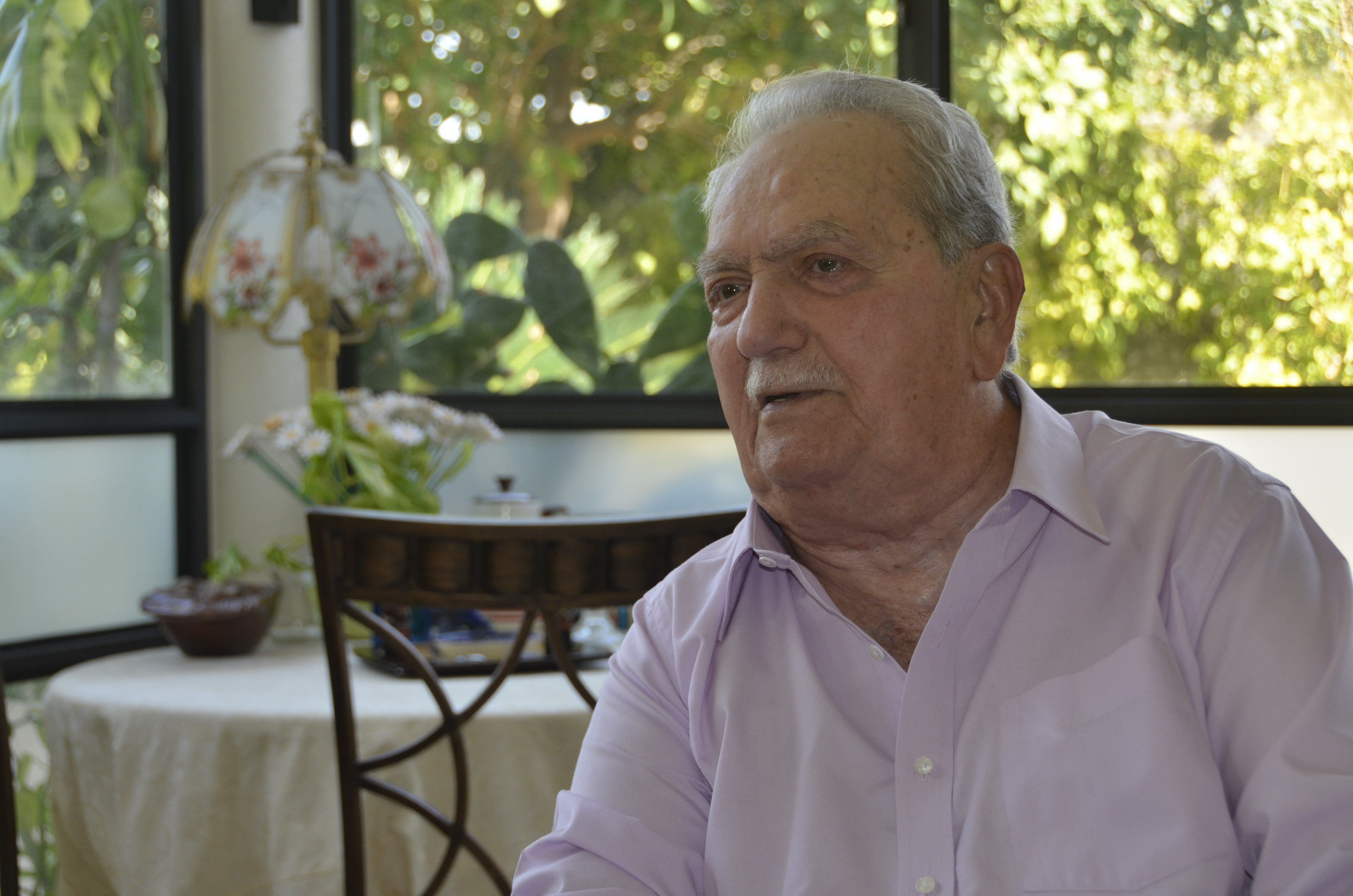 Gen. Yehoshua Sagi, Former head of the Israeli Military Intelligence Directorate and former MK, during an interview.